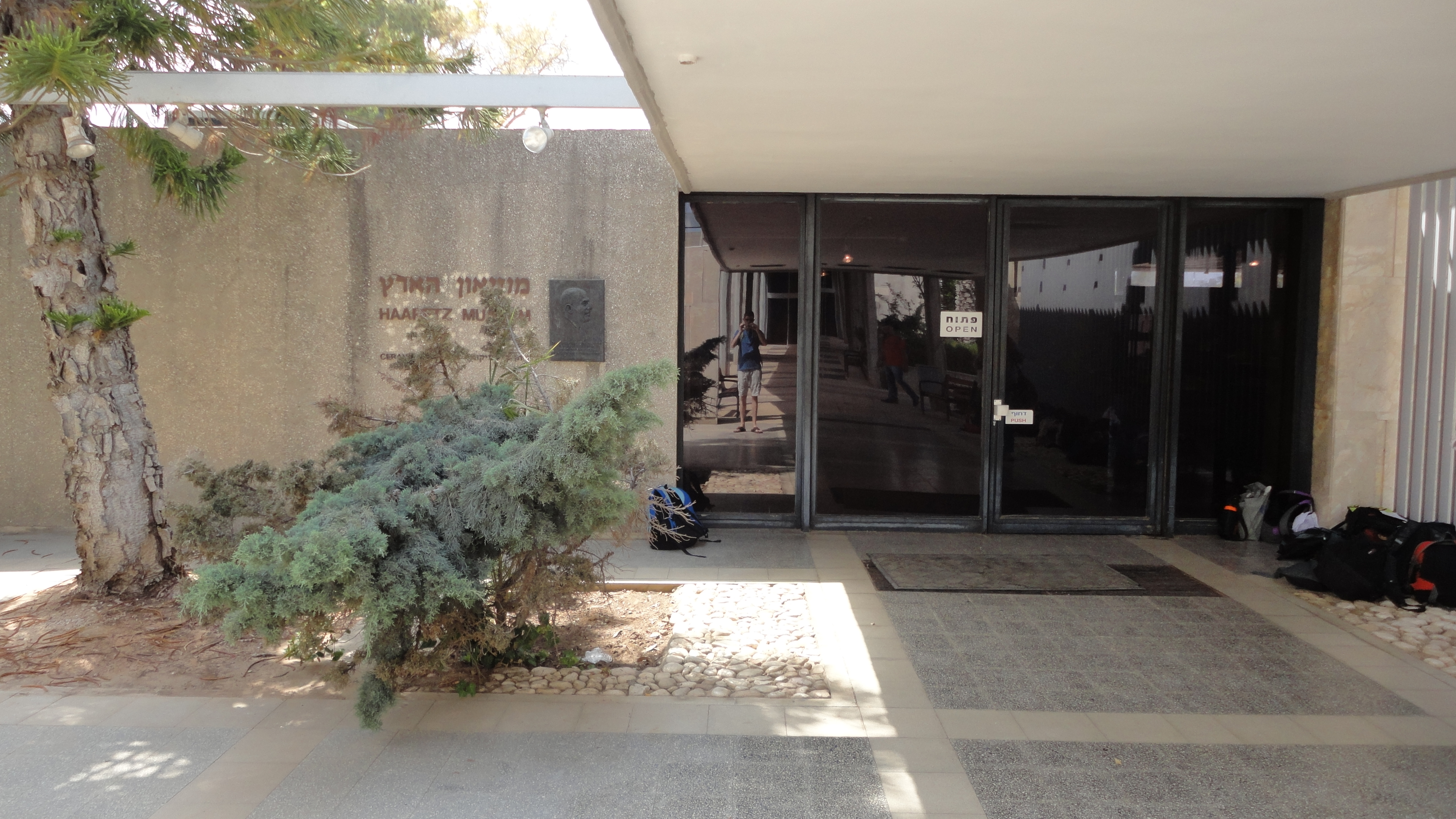 The Ceramics pavilion, Eretz Israel Museum, 2012